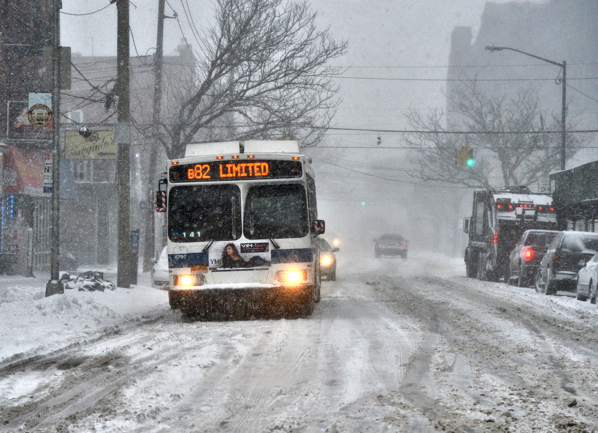 MTA crews were deployed from Wednesday, January 3, through Friday, January 5, to clear facilities of snow and ice as the winter storm swept through the region. This photo shows a B82 LTD bus approaching the Coney Island-Stillwell subway terminal. Credit: MTA New York City Transit / Marc A. Hermann